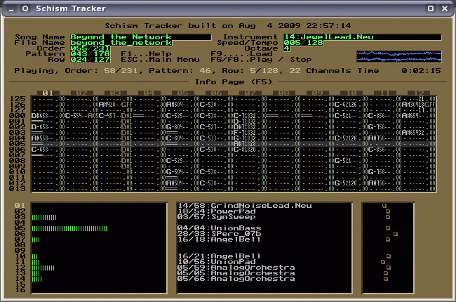 Screenshot of our tracker software, Schism Tracker, playing the epic 30-minute "Beyond the network" by Skaven, a Finnish composer.